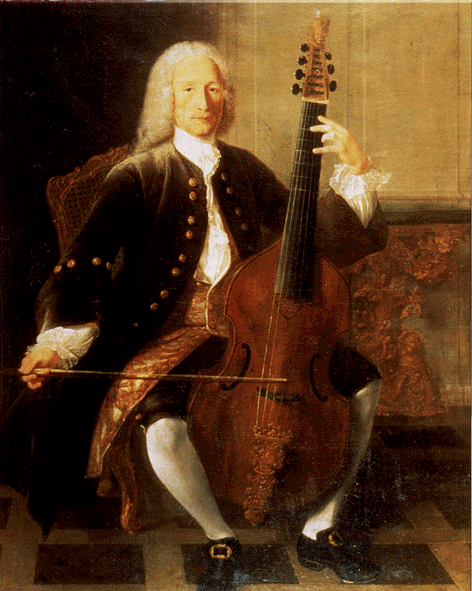 Portrait of Jean-Baptiste Forqueray (1699-1782)